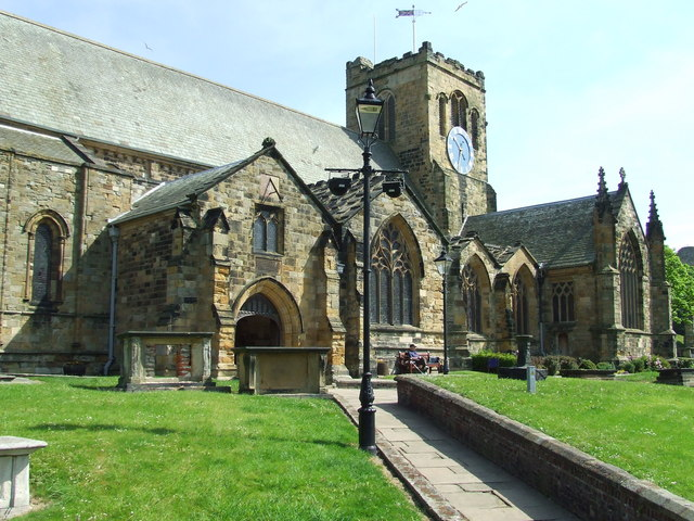 St Marys St.Marys church Scarborough, North Yorkshire.